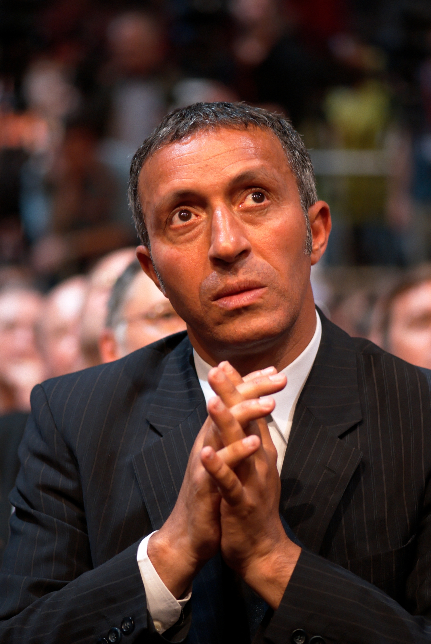 Azouz Begag at a rally for François Bayrou, centrist candidate in the 2007 French presidential election, heald on Apr. 18, 2007 at Paris Bercy.